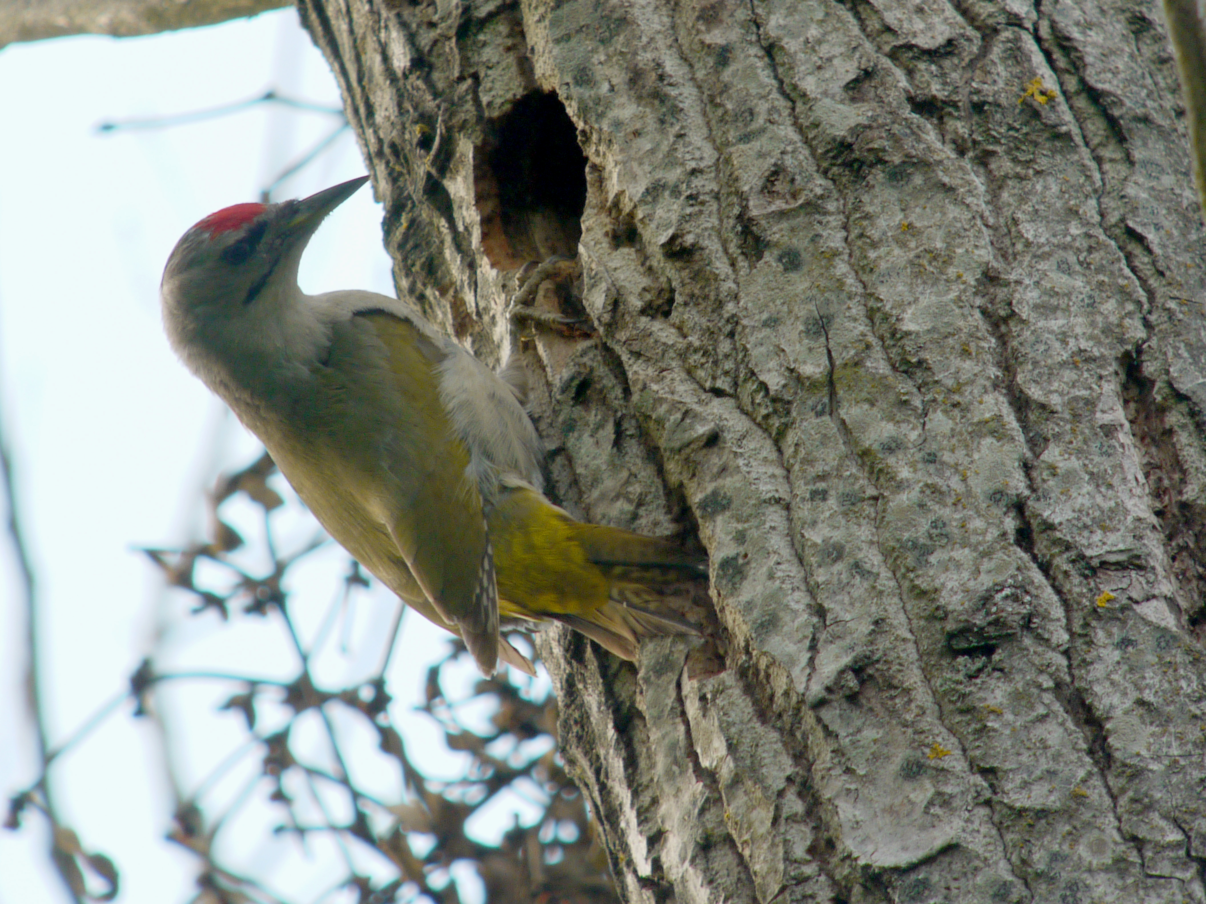 Grey-headed Woodpecker Picus canus canus, Białowieża, Poland. Digiscoping with Swarovski ATM 80 HD 30 X, Panasonic DMC-GF1 + Lumix G 20mm F1.7 ASPH (Adapter DCB).